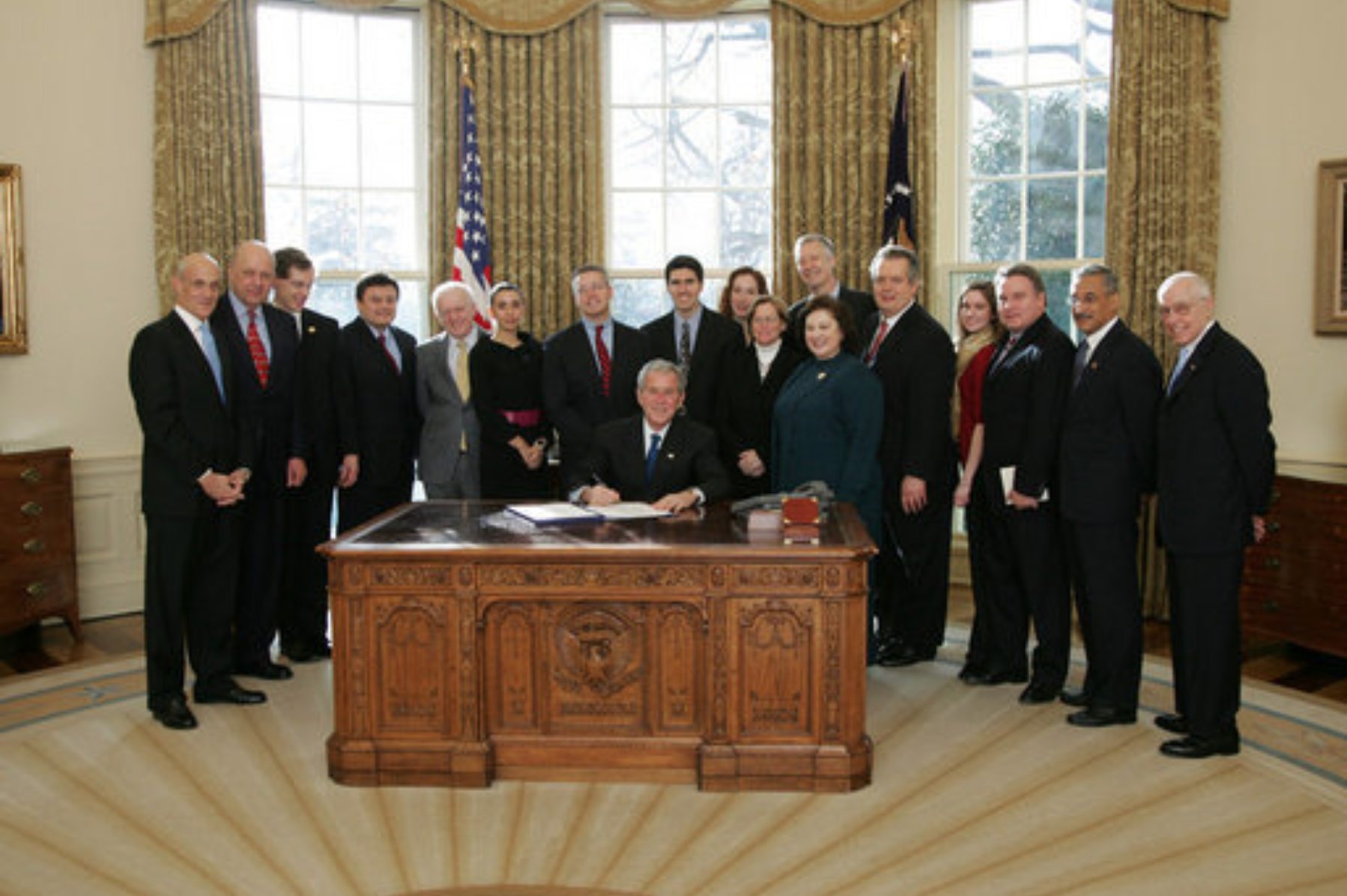 Lagon attends President George W. Bush signs H.R. 7311, the William Wilberforce Trafficking Victims Protection Reauthorization Act